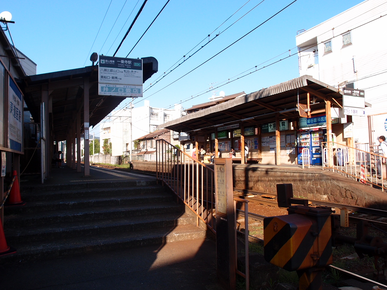 Ichijōji Station of Eizan Electric Railway in Kyoto.